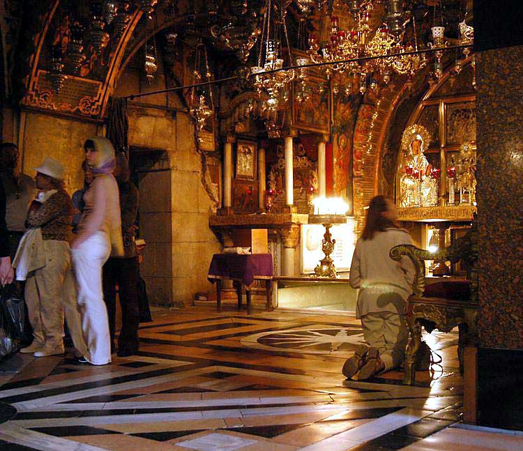 Golgotha Hill, inside the Church of The Holy Sepulchre